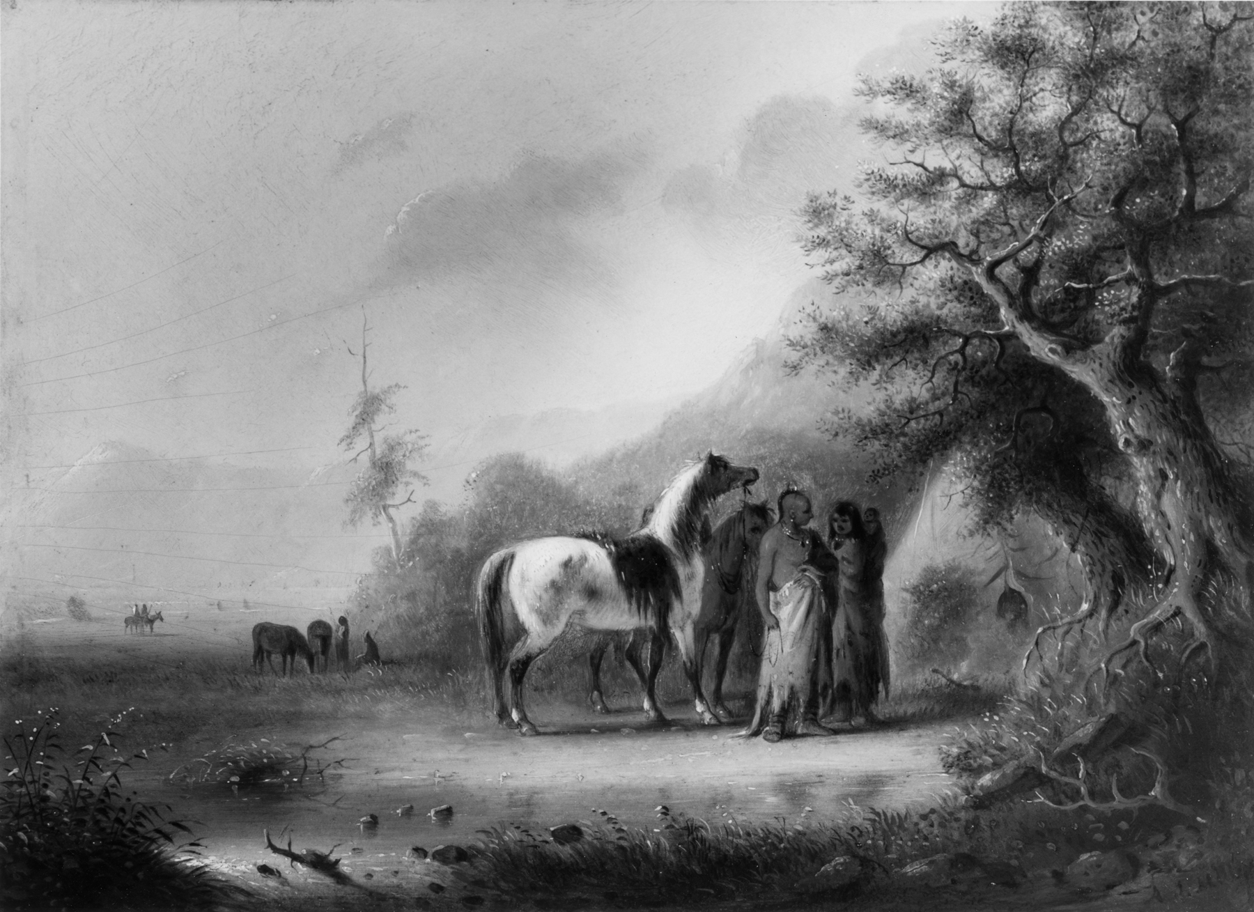 In the spring of 1837, Captain William Drummond Stewart hired the Baltimorean Alfred Jacob Miller to accompany and record an expedition to the annual fur traders' rendezvous held in the foothills of the Rocky Mountains in what is now Wyoming. That autumn, the artist returned east with sketches and watercolors, which served as the basis for later paintings. Miller observed that Americans could find in their own country "a race of men equal in form and grace (if not superior) to the finest ideal ever dreamed of by the Greeks." With the financial assistance of Baltimore collector Robert Gilmor, Jr., Miller studied in Europe in 1832-33, where he was attracted to the works of the Romantic artists, particularly Decamps and Delacroix, as well as to paintings he saw in the Louvre Museum by Dutch 17th-century masters.